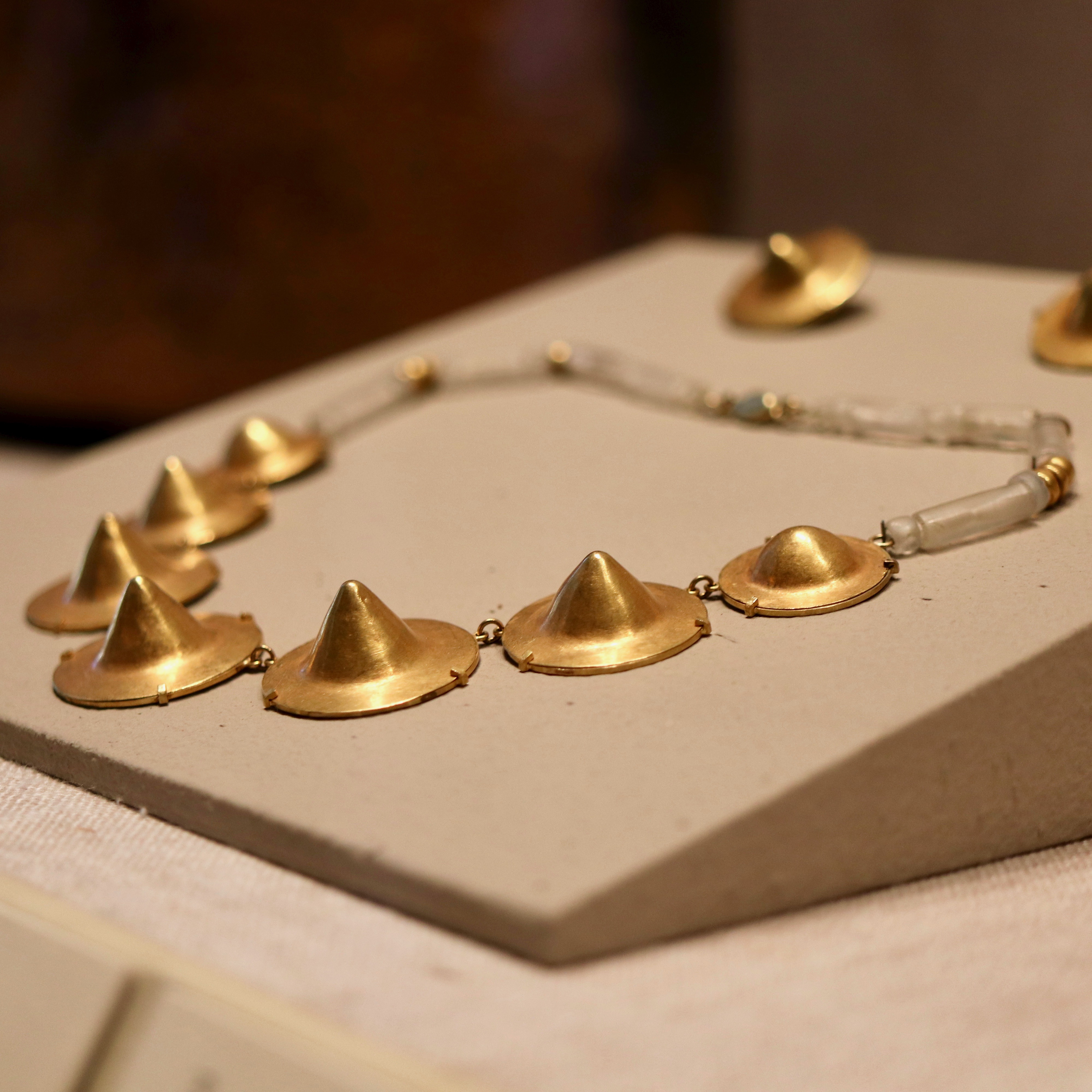 Necklace and Earrings, AD 1000 Tairona region, Colombia Gold and crystal. The Dom Joseph Judge, M.D. Collection donated by the Judge Family 2002.23.1, 2a, b These gold objects have been adapted for modern use as jewelry. Their original composition is unknown, but they may have been attached in some fashion to clothing for burial.